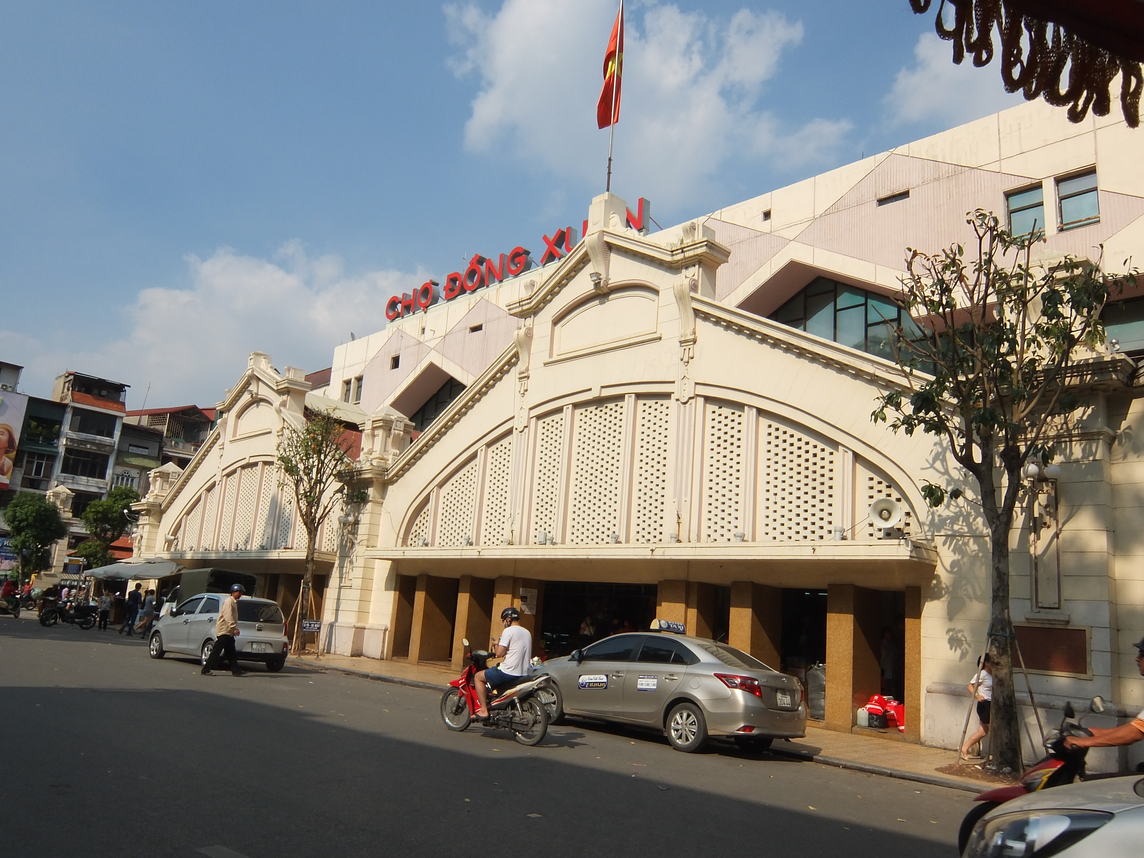 I didn't realize it at that time, but my pedicab driver stopped here and said market, big. I later found on the web that this is actually the Dong Xuan Market, the largest of its kind in Hanoi. This sprawling complex has several floors of fashion, apparel and souvenirs at some of the best prices in the city. Even if you’re not interested in printed T-shirts or cheap sunglasses, it is still fascinating to see the comings and goings of the local traders, and there is a wet market on the ground floor where the sights and smells of exotic produce assault the senses. (Hanoi, Vietnam, Oct./ Nov. 2016)